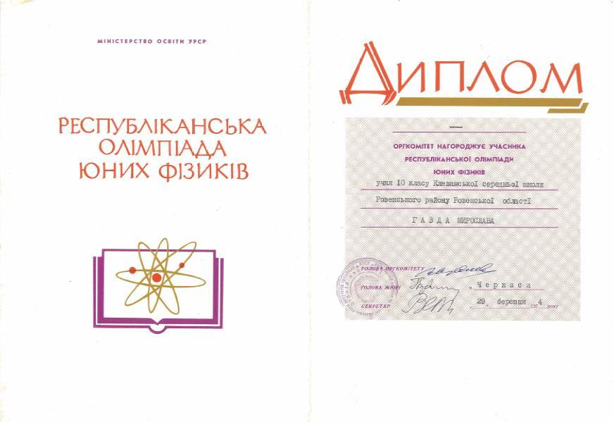 Diploma of the Republican competition of young physicists in Cherkasy, 1974, Miroslav Gazda, Klevan SSH№1